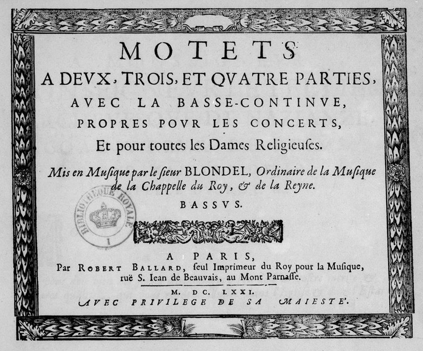 Title page of L.N. Blondel, Motets (Paris, 1671)